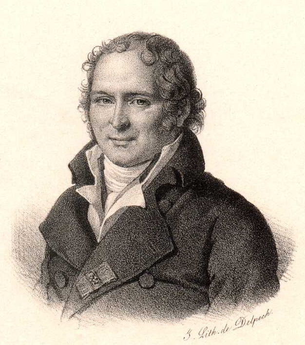 Portrait of Antoine-François de Fourcroy (1755—1809), French chemist.